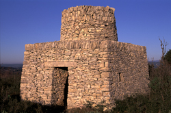 Dry stone hut located at Souvignargues in the Gard département, France. Photo by Dominique Repérant.